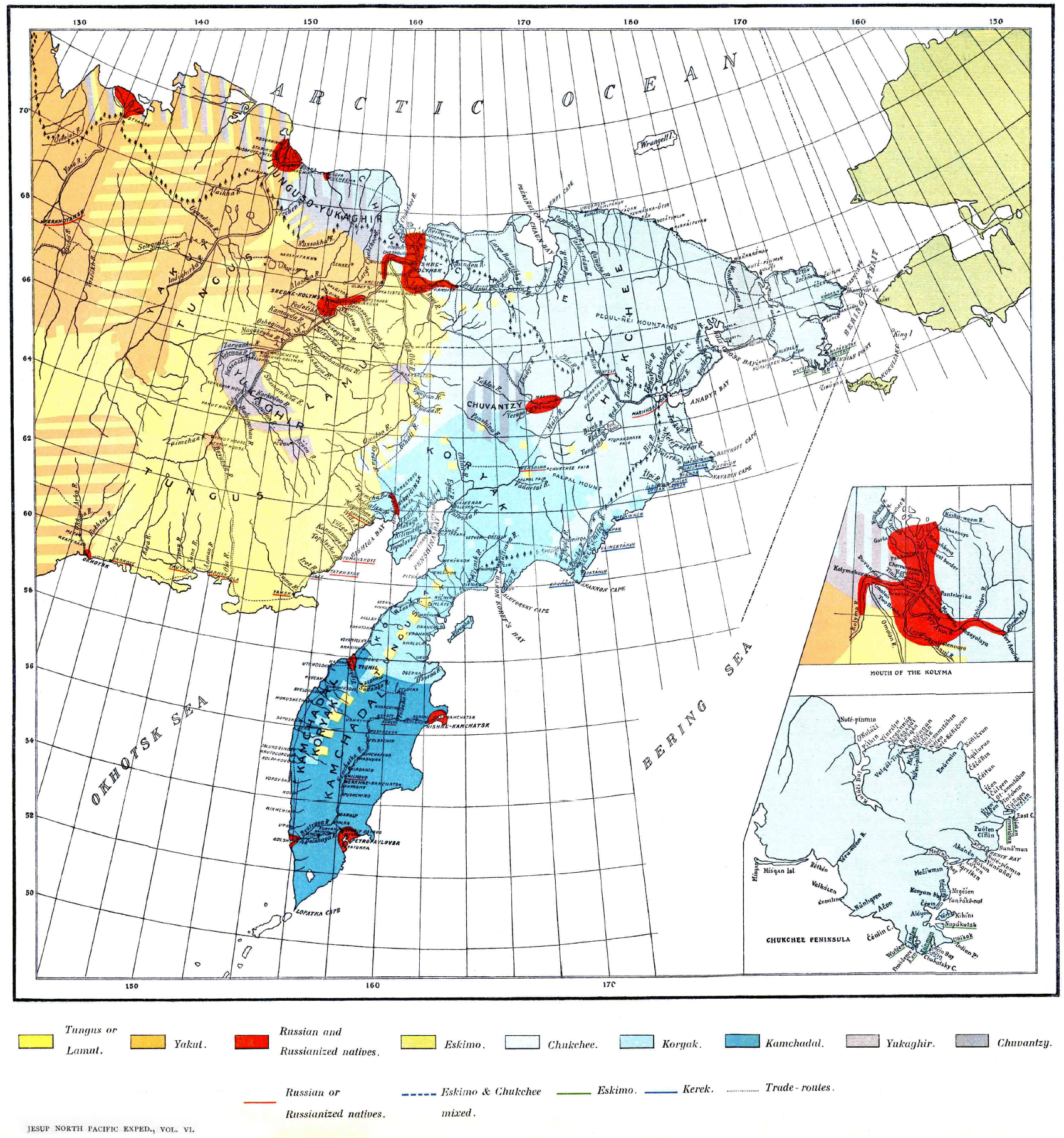 Map of Siberian Nations, built on results of Jesup North Pacific Expedition (1897-1902)